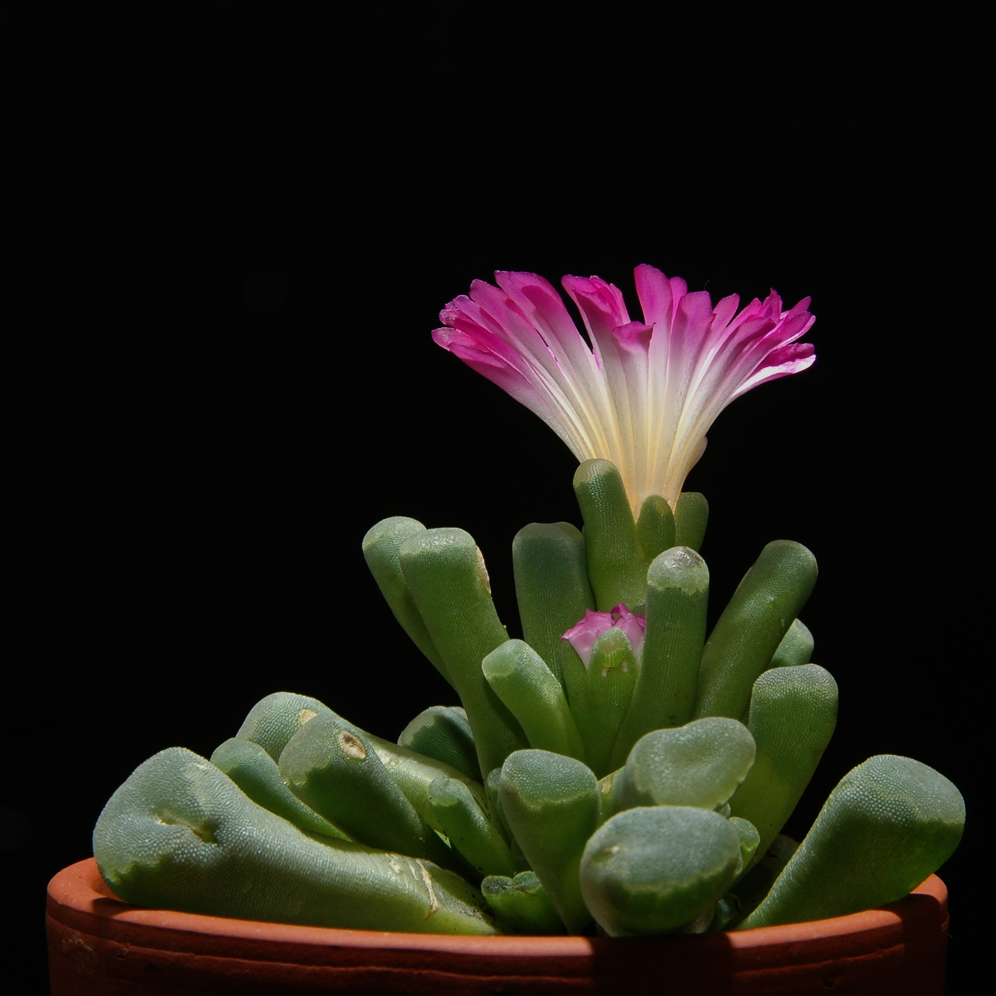 Flowering Frithia pulchra (Aizoaceae), my own plant